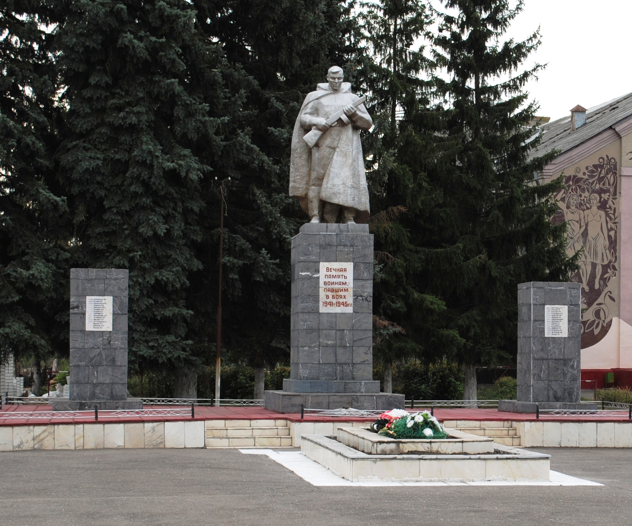 Sergievskoe in Livny